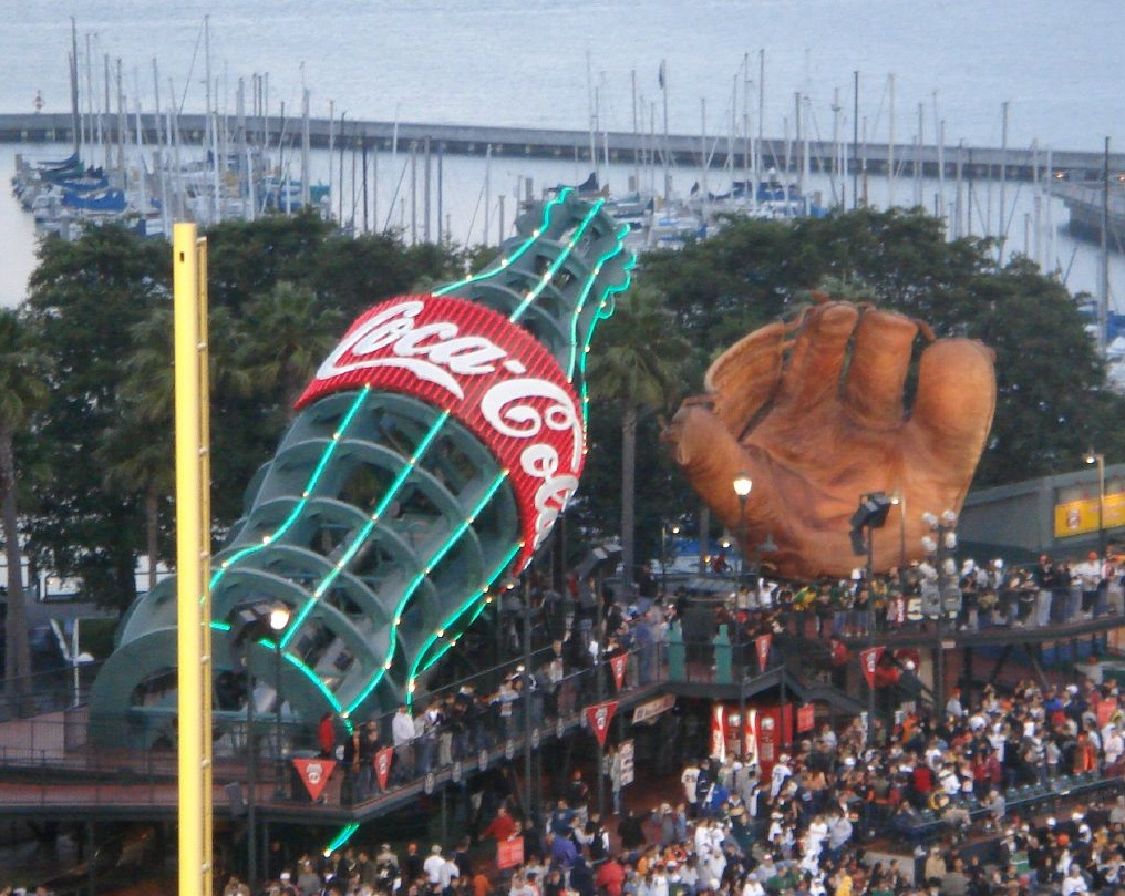 The oversized Coke bottle and baseball glove at AT&T Park in San Francisco, California. 02:49, 13 September 2007 . . StormXor . . 1,016×809 (340 KB)